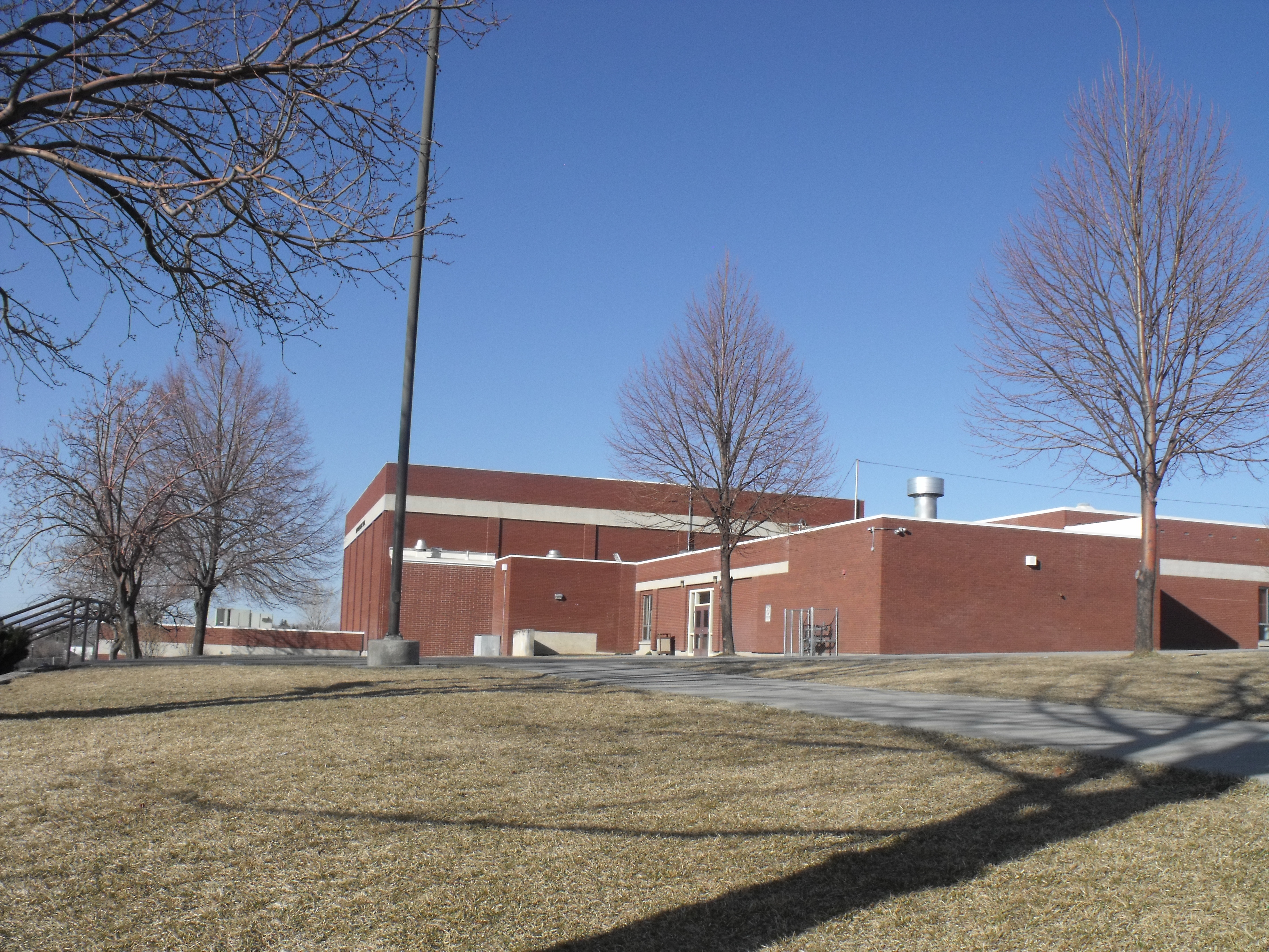 North Cache Middle School, Richmond, Utah